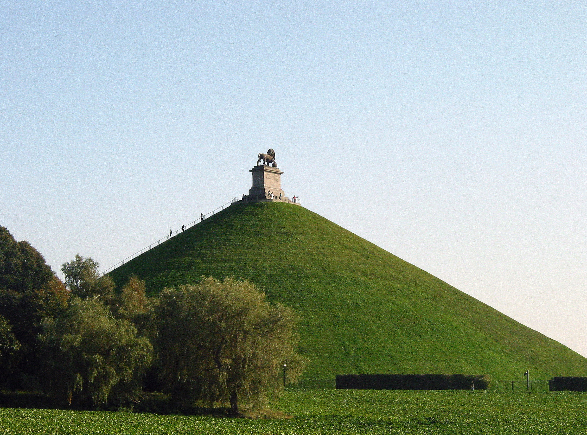 Braine-l'Alleud, the Lion Mound. - Commemorative monument of the Battle of Waterloo standing on the spot where the Prince of Orange was wounded during the fight.